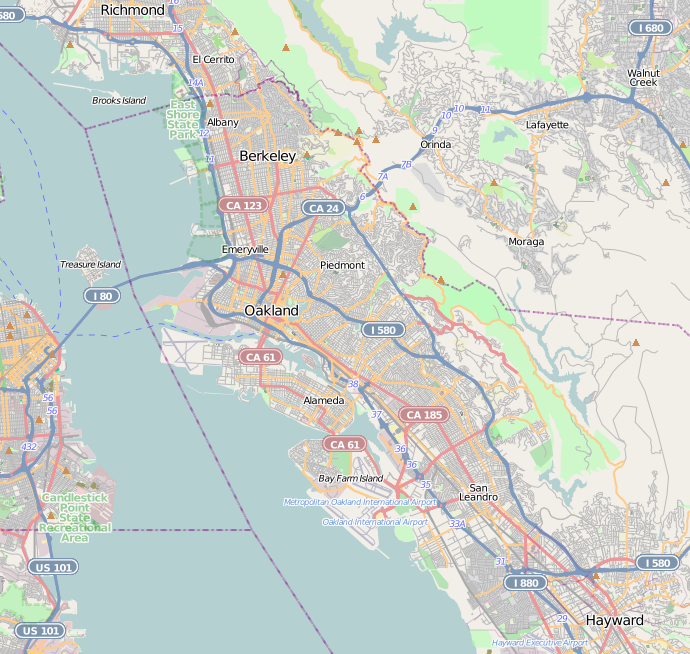 This map of Oakland and Berkeley, California, and vicinity was created from OpenStreetMap project data, collected by the community. This map may be incomplete, and may contain errors. Don't rely solely on it for navigation. Border coordinates37.94-122.421←↕→-122.03937.654